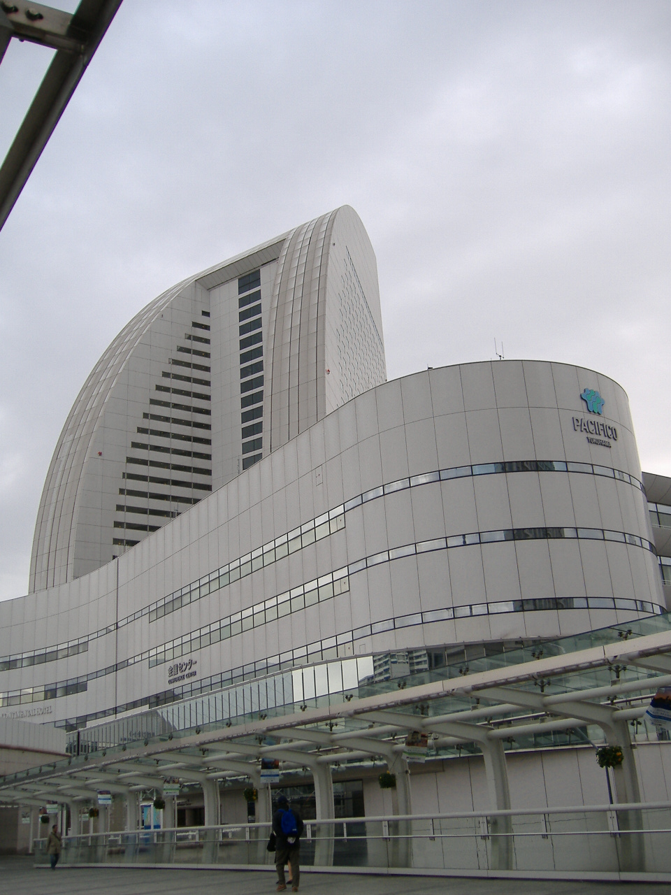 InterContinental the Grand Yokohama.